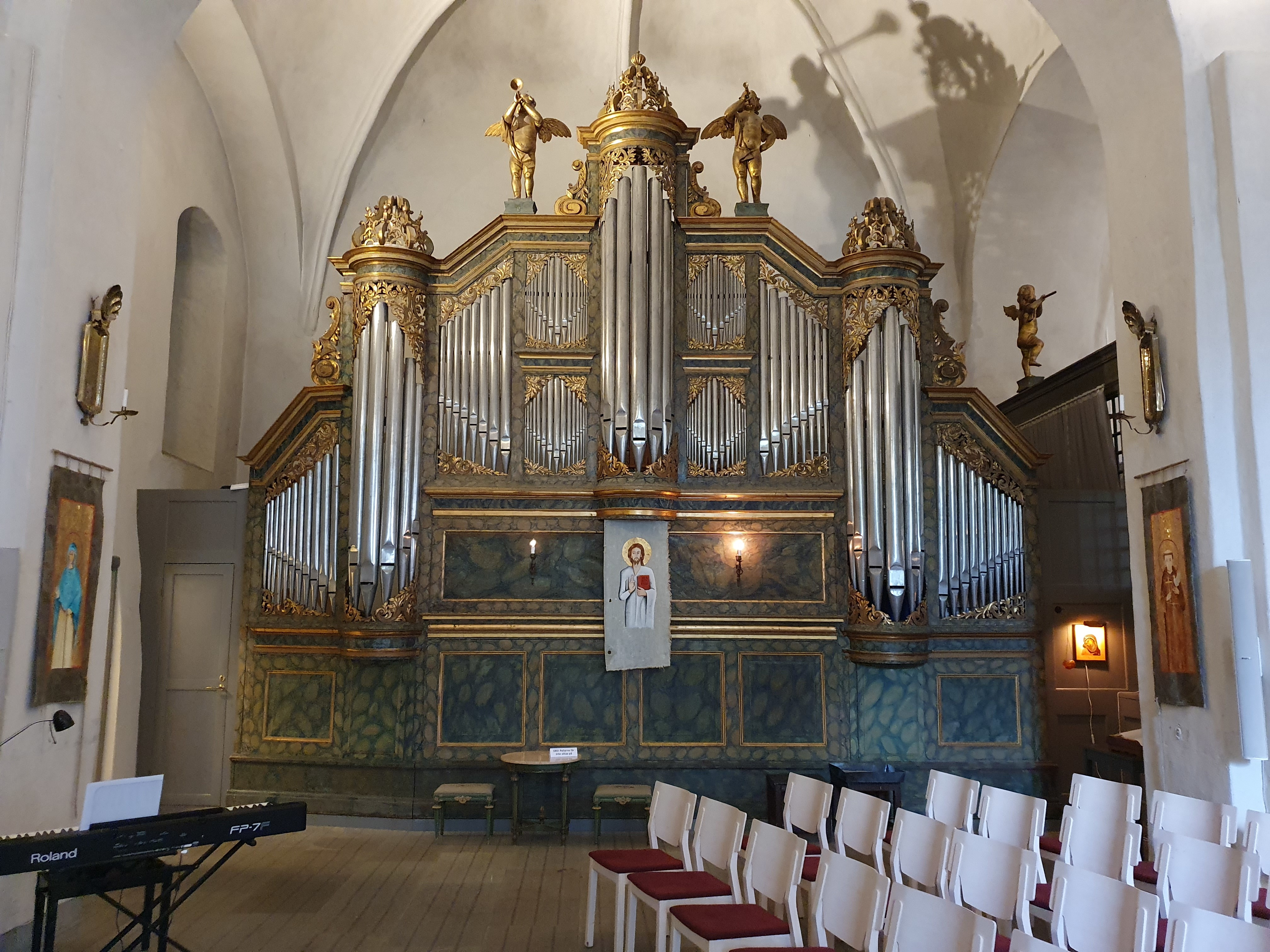 The organ in St Nicolai Church, Nyköping.